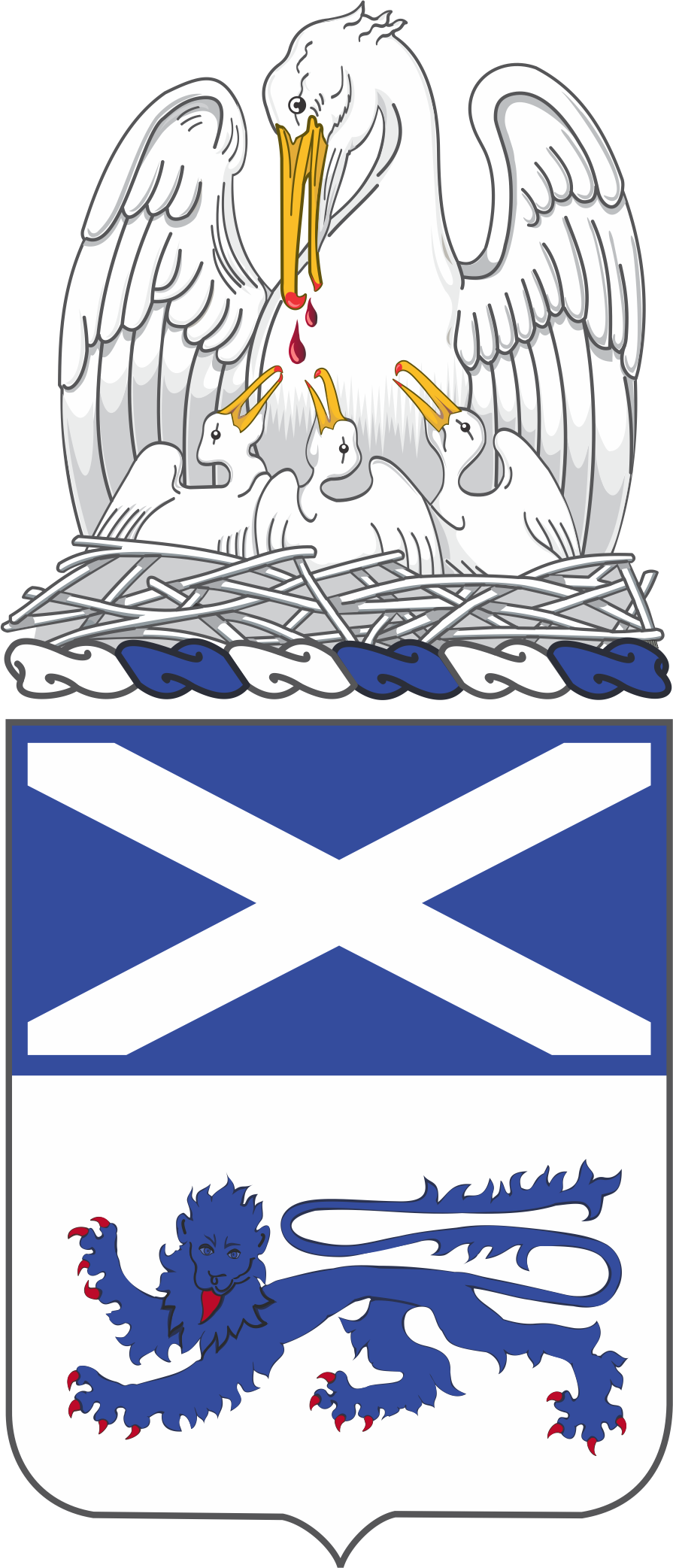 Description/Blazon Shield Per fess enhanced Azure and Argent in chief a saltire couped of the second and in base a leopard passant guardant of the first armed and langued Gules. Crest That for the regiments and separate battalions of the Louisiana Army National Guard: On a wreath of the colors Argent and Azure, a pelican in her piety affronté with three young in nest, Argent, armed and vulned Proper. Motto DIEU ET MOI (God and I). Symbolism Shield The shield is in the colors of the Infantry. The organization's honorable Civil War service is shown by the saltire, (St. Andrews cross), taken from the Confederate battle flag. The leopard is taken from the arms of Normandy and symbolized the campaigns fought in Northern France. Crest The crest is that of the Louisiana Army National Guard. Background The coat of arms was approved on 12 October 1951.